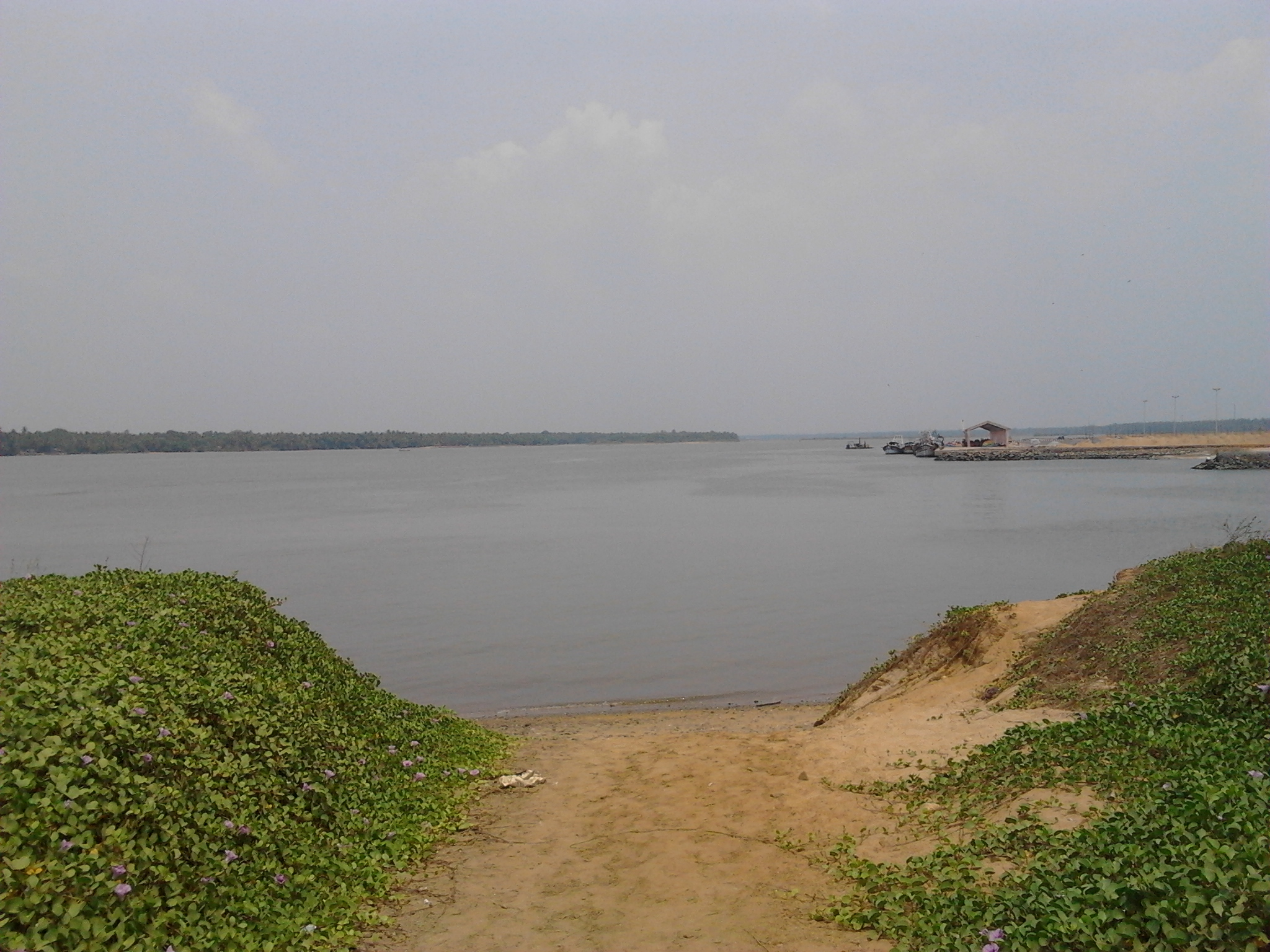 Bharathapuzha Joins Arabian Sea